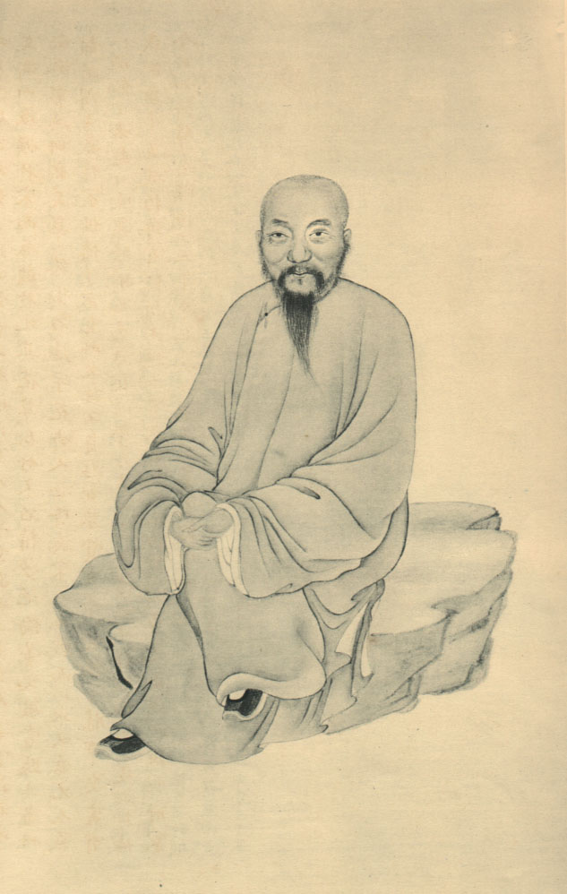 Chen Gongyin, scholar of the Qing Dynasty.